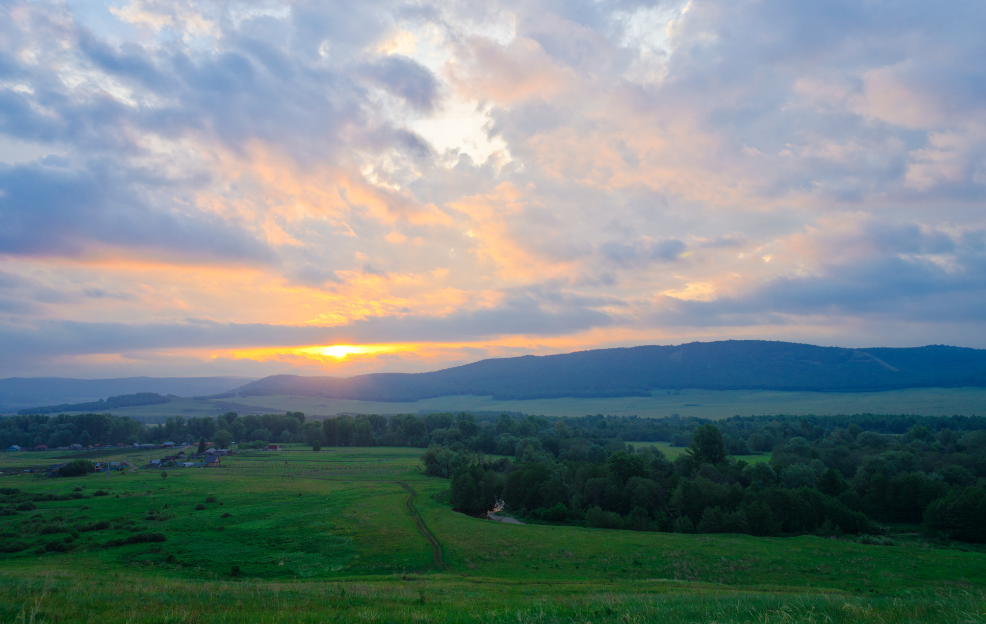 Dawn over the Zigan River.